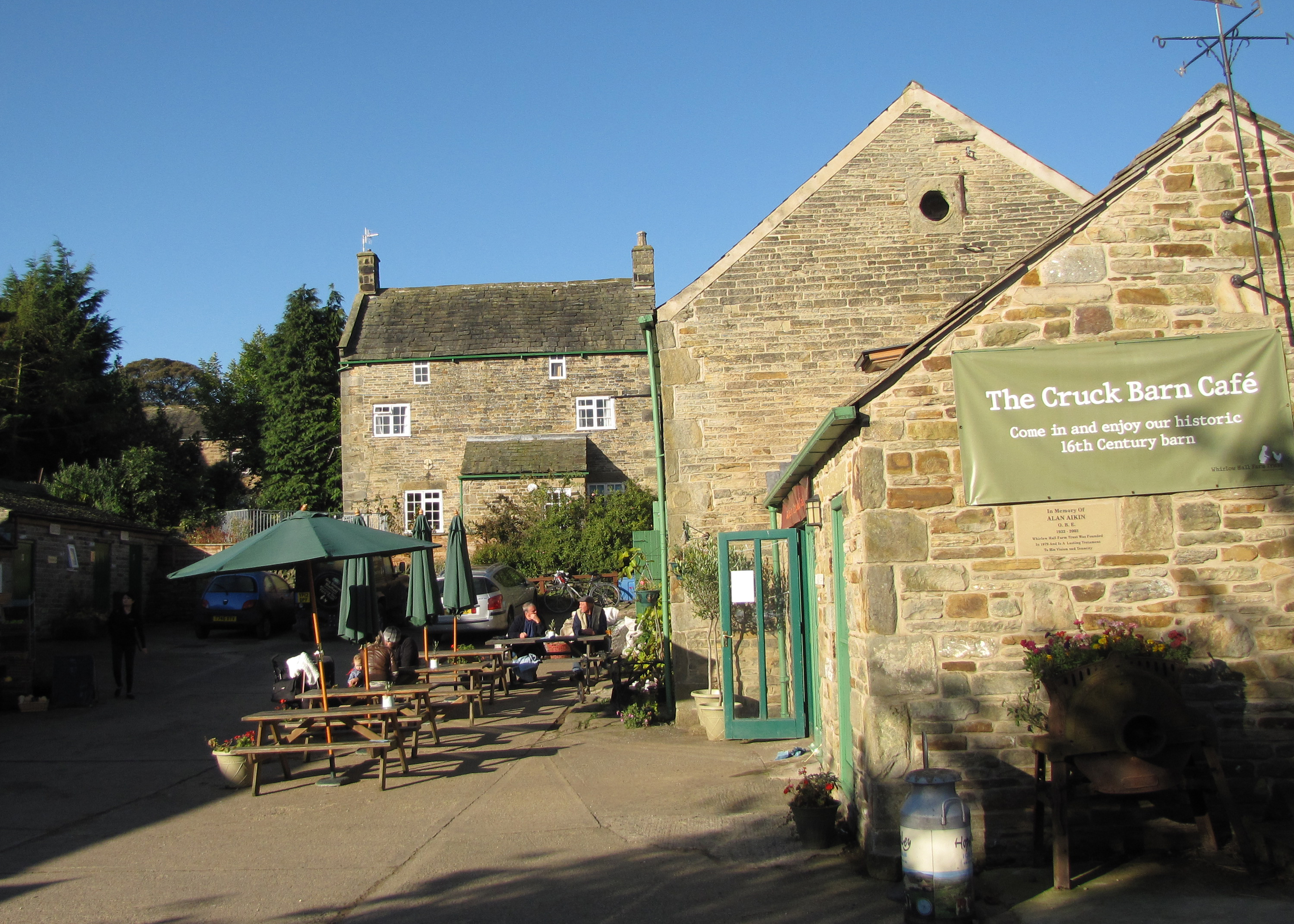 The lower yard at Whirlow Hall Farm in Sheffield, England